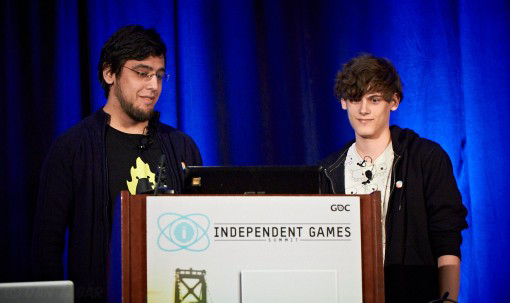 Photograph of Rami and JW speaking at GDC